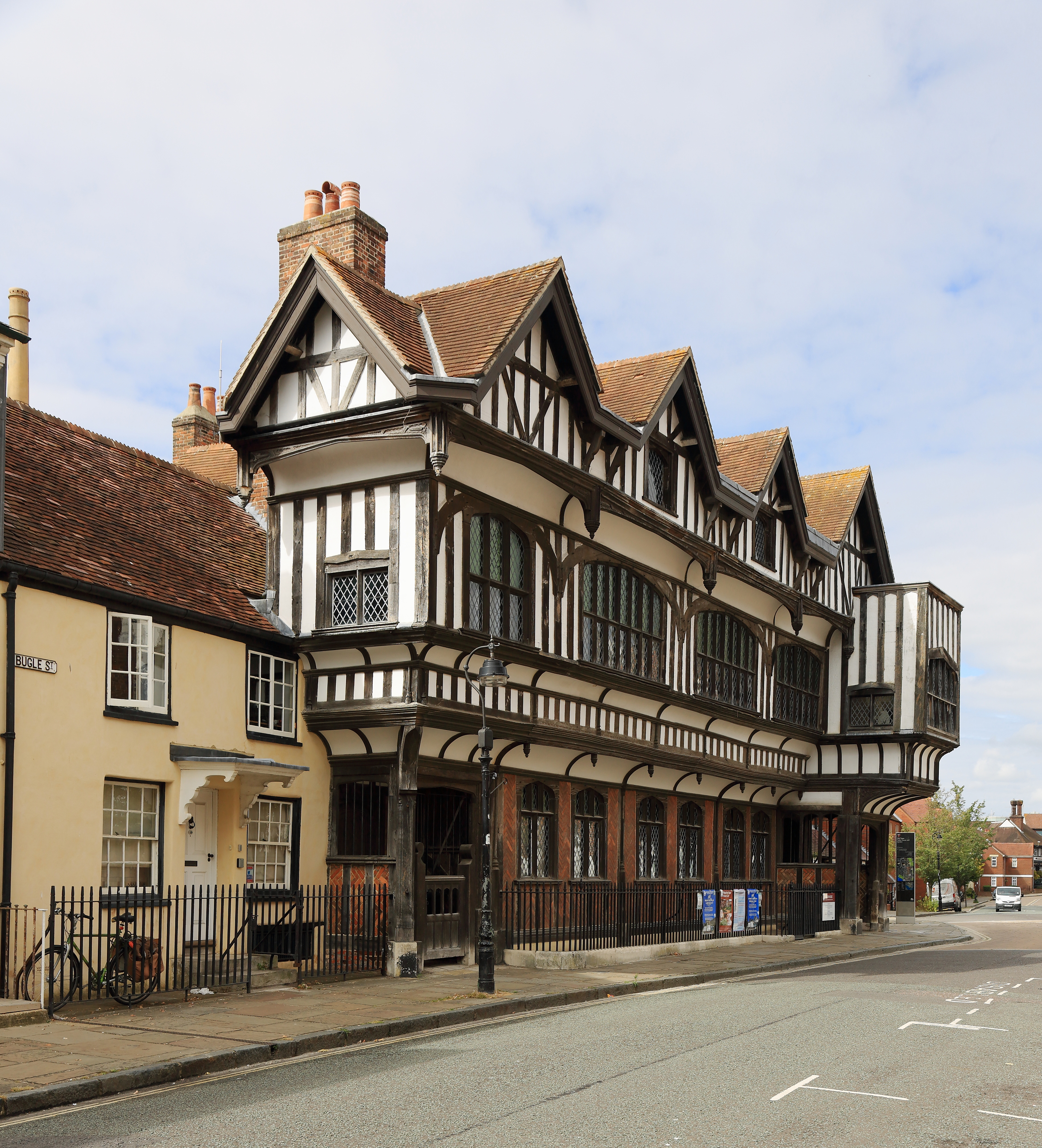 Tudor House and Garden is a historic building, museum, and tourist attraction in Southampton, England.